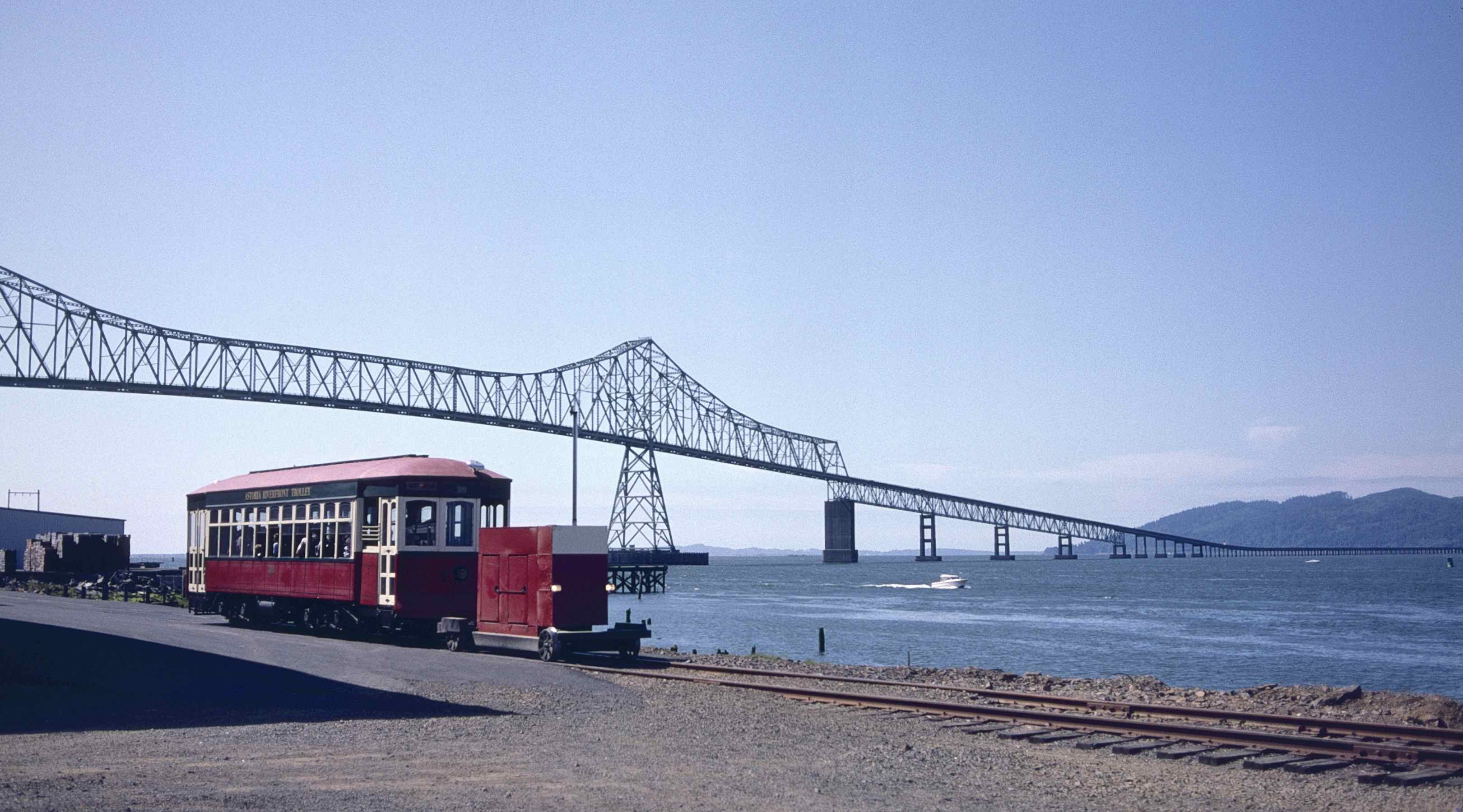 Astoria Riverfront Trolley car 300 with the Columbia River and the Astoria-Megler Bridge in the background. The photo was taken in July 1999, only the second month of operation of the heritage trolley line. The area flanking the tracks was later paved for use as a walking and bike path, the Astoria Riverwalk.